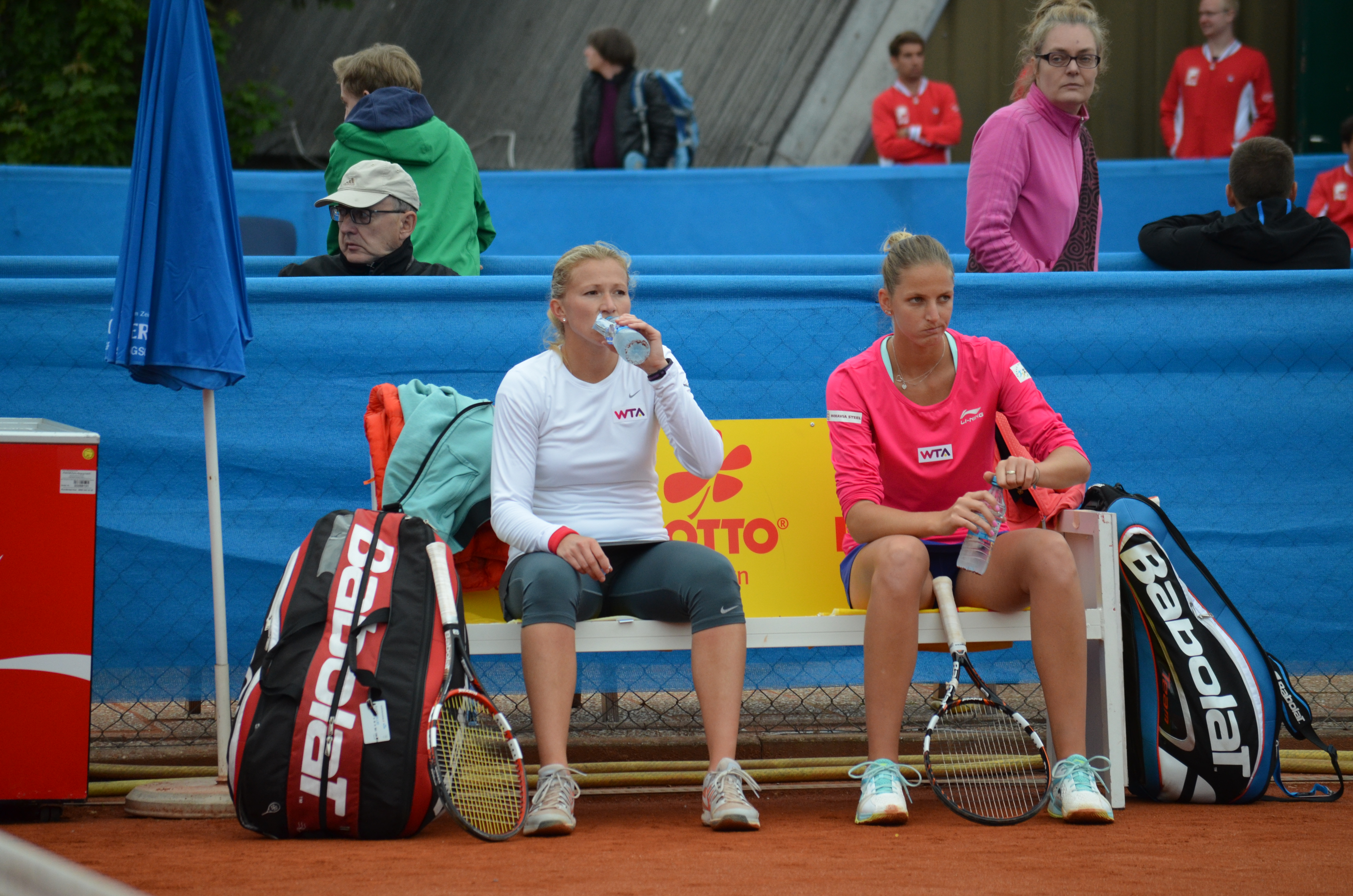 Michaëlla Krajicek (left) and Karolína Plíšková (right) during their first round doubles match against Yvonne Meusburger and Kathinka von Deichmann, at the 2014 Nürnberger Versicherungscup